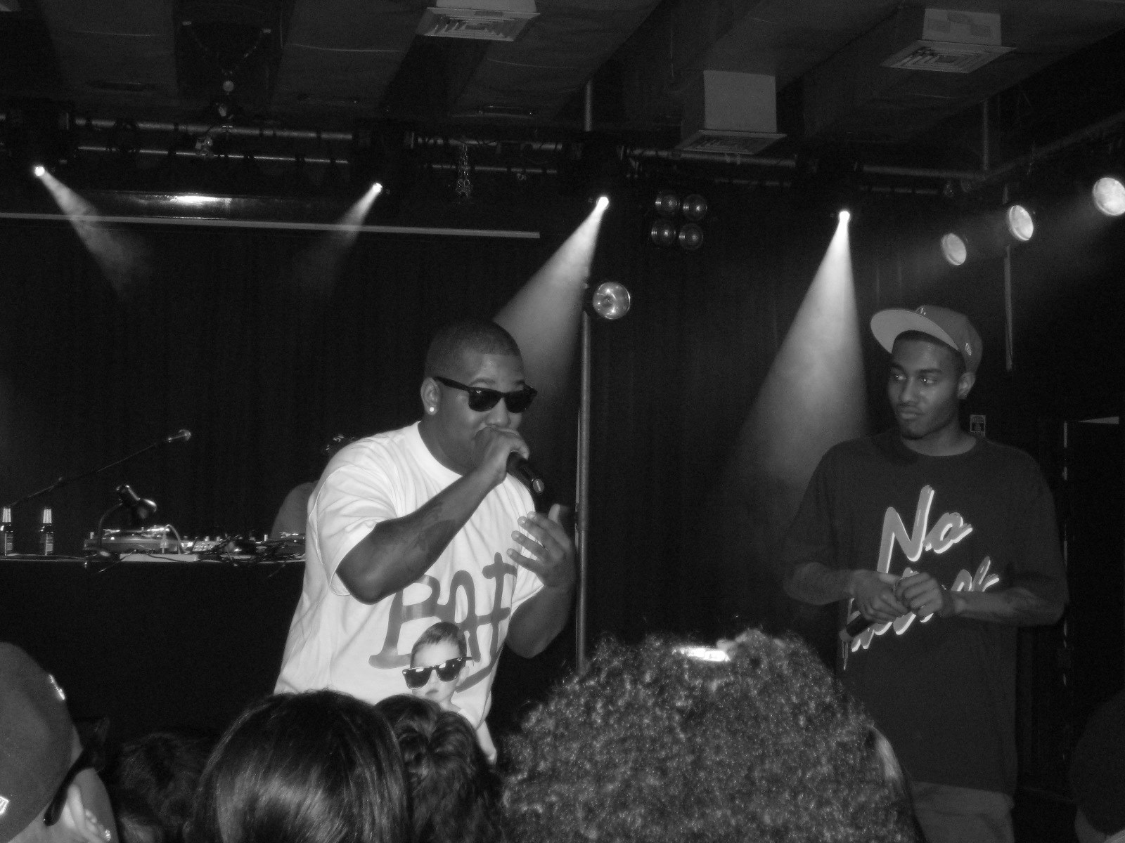 The Cool Kids performing at Scala in London.